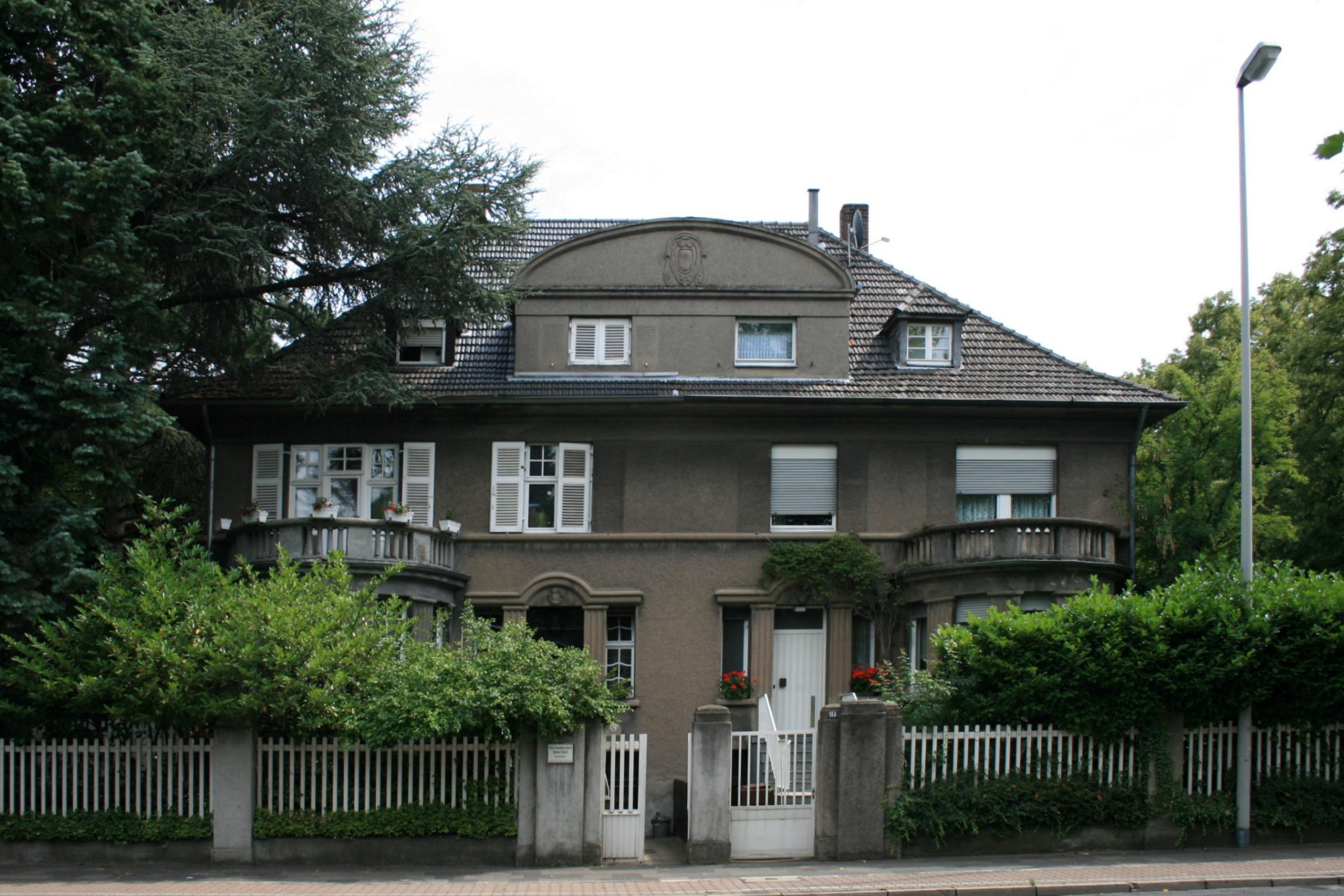 Cultural heritage monument No. G 025 in Mönchengladbach